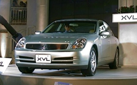 NISSAN XVL